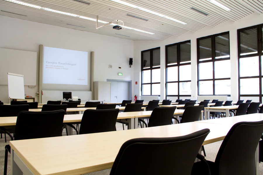 UAM study rooms